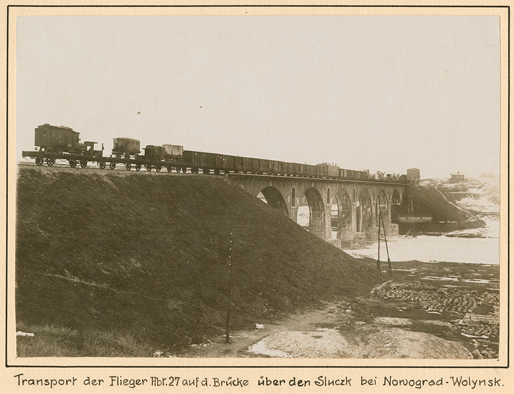 Title: Transport der Flieger Abt. 27 auf d. Bruecke ueber den Sluczk bei Nowograd-Wolynsk Alternative Title: Flight Squadron 27's equipment is carried across the bridge over the Sluch River at Novograd-Volynsk Creator: Unknown Date: Spring 1918 Part Of: Place: Novohrad-Volyns'kyi, Zhytomyrs'ka Oblast, Ukraine Physical Description: 1 photographic print: gelatin silver; 12 x 17 cm. on 34 x 44 cm. mount File: ag1982_0048x_01e_sm_opt.jpg Rights: Please cite DeGolyer Library, Southern Methodist University when using this file. A high-resolution version of this file may be obtained for a fee. For details see the web page. For other information, . Both the full portfolio and the 263 individual photographs, scanned at a higher resolution, are available. View the full portfolio: View the individual photographs: For more information, View the